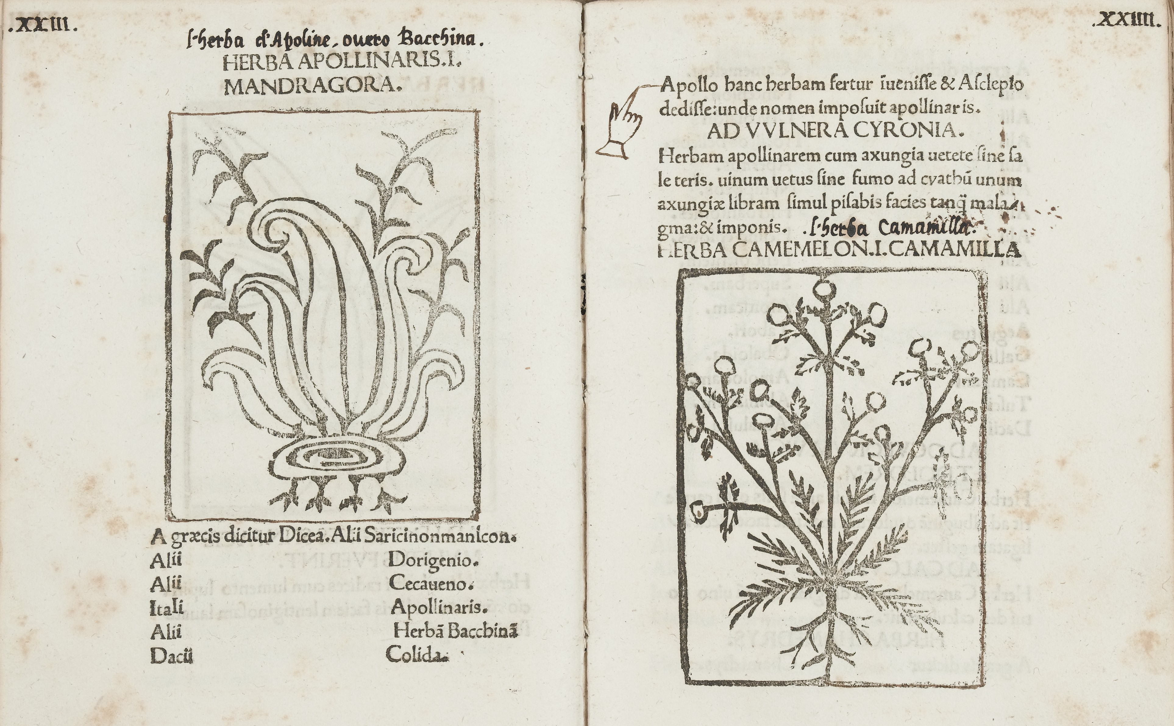 Pages from Apuleiu's 'Herbarium...' showing Herba Apollinaris and Camamilla Rare Books